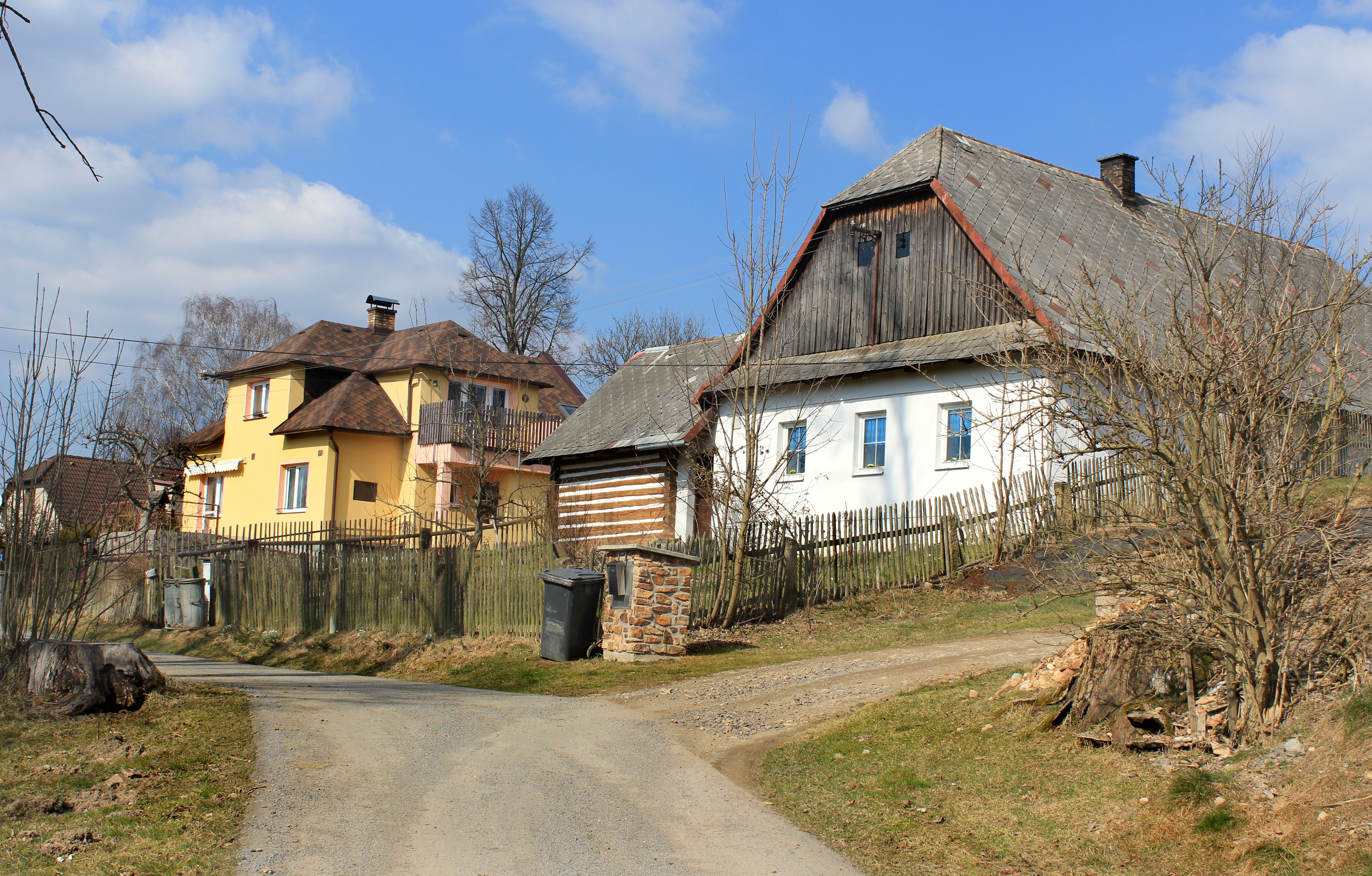 Side street in Vítanov, Czech Republic.